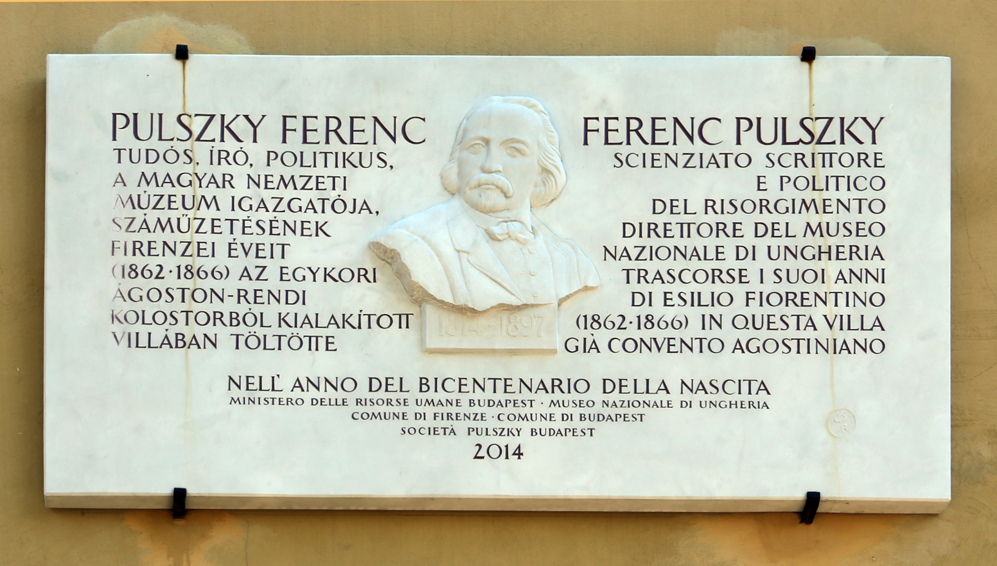 Florence, miscellany